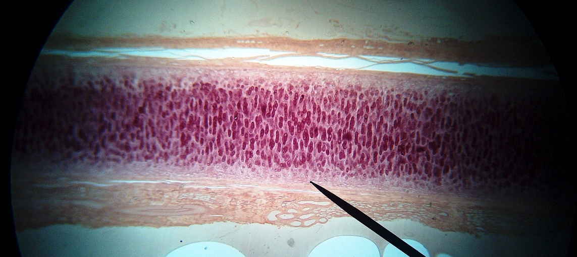 Elastic cartilage